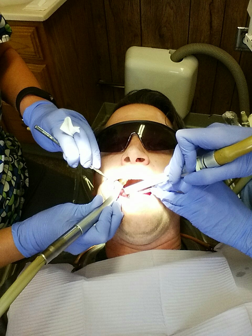 A man whose teeth are being worked on at the dentist.